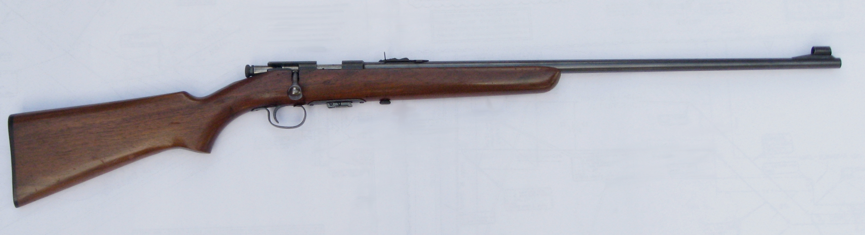 Winchester Model 69 rifle, large view